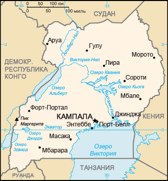 Map of Uganda from "The World Factbook" translated to russian